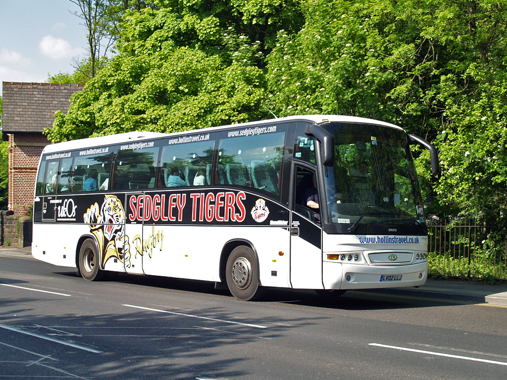 Gracedown Limited (trading as Hollins Travel) (originally Pullmanor) LV02 LLJ, an Iveco 391.12.35A built 2002 with a Beulas C49fT body on Manchester Road, Blackford Bridge in the team colours of Sedgley Park R.U.F.C. but with a schools service.